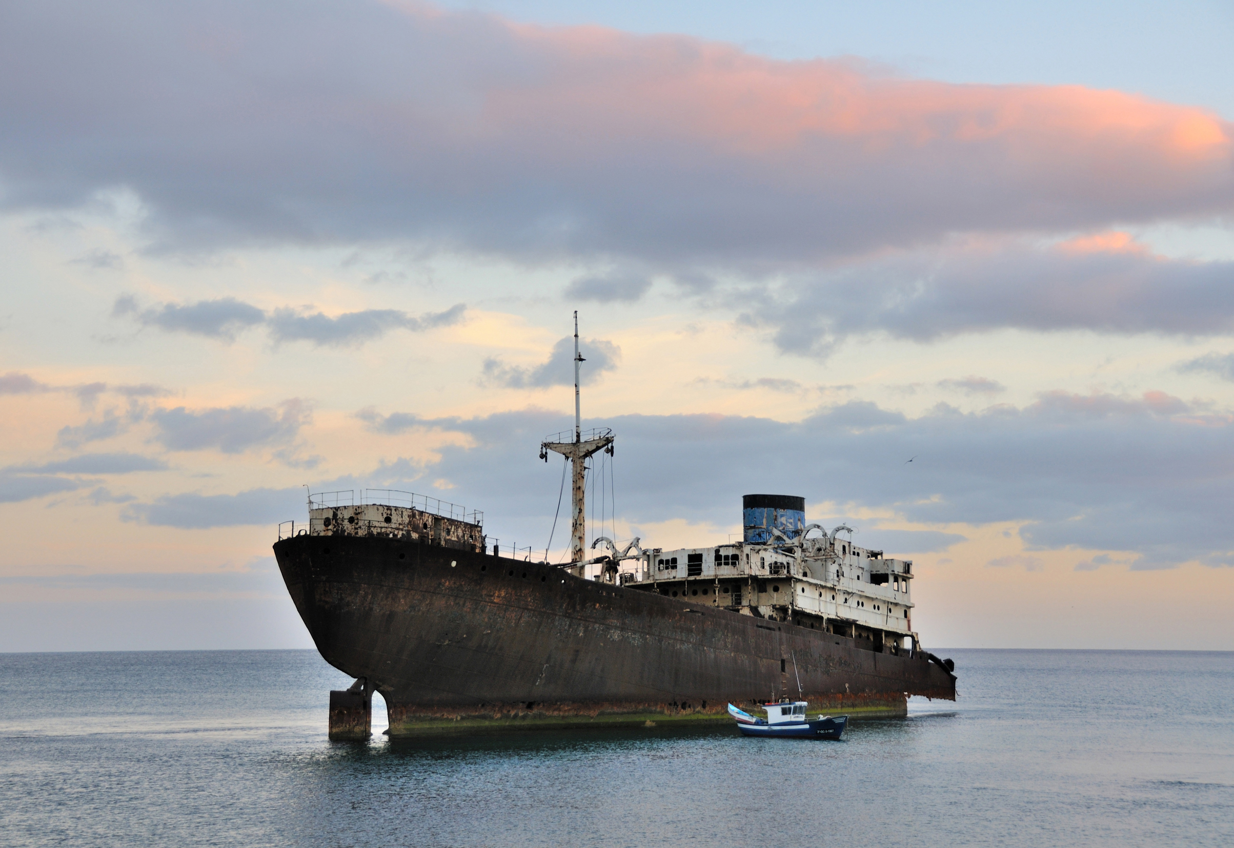 Temple Hall Shipwreck